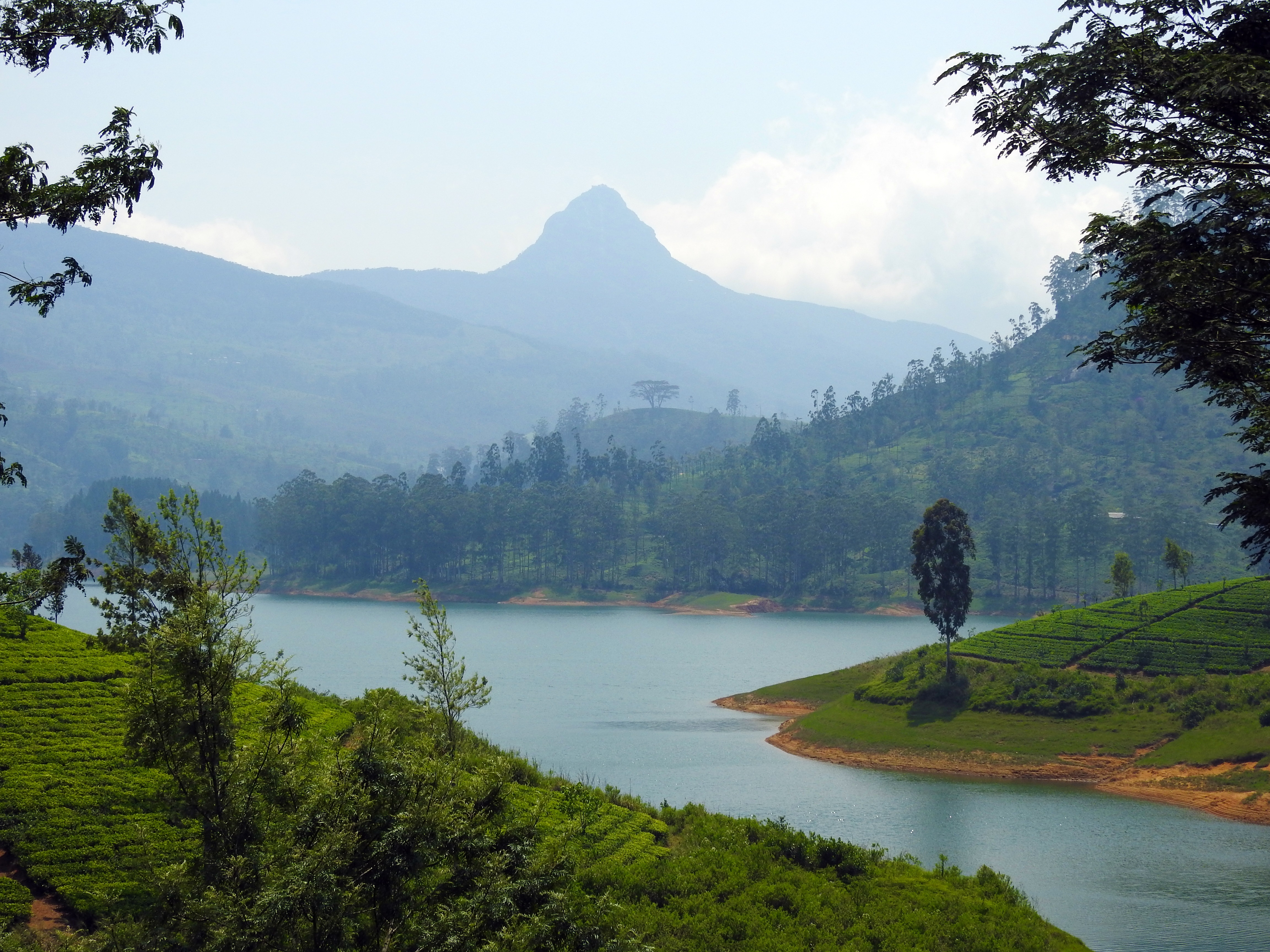 This photo was taken as part of a photo project by Wikimedia Community User Group Sri Lanka, covering current/future hydroelectric dams (and its surroundings) in the Central and Sabaragamuwa provinces of Sri Lanka. User:Rehman handled the photography, while User:Azeez and User:PasinduBR handled the logistics/planning of routes. Description of photo: Maskeliya Reservoir, with Adam's Peak in the background. Further information on the subject(s) of the photograph may be found in the category/ies of this file.